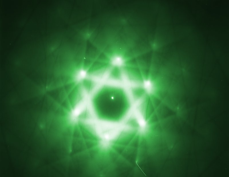 Selected area electron diffraction (SAED) pattern of a thick Si specimen with many diffusely-scattered 100keV electrons, and a beam direction nearly parallel to the Si zone. The λ ≈ 0.0370 Å electron-wavelength makes the radius 1/λ Ewald-sphere nearly planar on the scale of the inner-star radius g220 ≡ 1/d220 ≈ 1/1.92Å, and the beam half-angle facilitates weak excitation of many Bragg-reflections even though no reflections are at the Bragg-condition (where a Kikuchi-band in the star-pattern e.g. of width θscatt = 2θBragg = 2asin[λ/(2d220)] ≈ 19.2 mrad would have been shifted to intersect both the incident beam's central dot and a diffraction spot). These electrons either had enough leptonic-imagination by themselves to construct the 2D Wigner-Seitz cell[1] (lattice-point bisectors) for this reciprocal-lattice slice, or else Brillouin-zone surfaces in a crystal are so real that they can be directly imaged. What do you think?